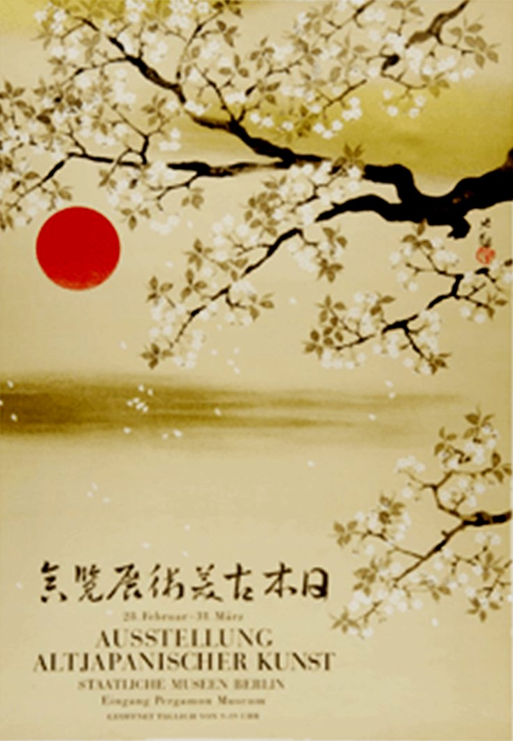 Poster for an exhibition 1939